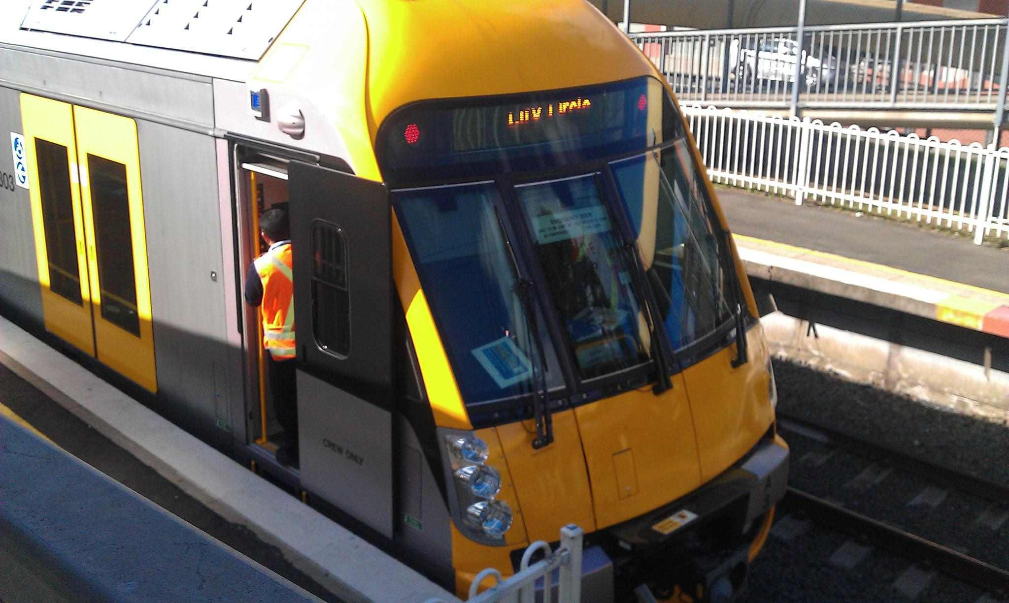 Back end carriage of the waratah train, note the guards' compartment is at the back of the train.